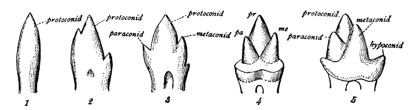 Fig. 39.—Epitome of the evolution of a cusped tooth. 1, Reptile; 2, Dromatherium; 3, Microconodon; 4, Spalacotherium; me, metaconid; pa, paraconid; pr, protoconid; 5, Amphitherium. (After Osborn.)